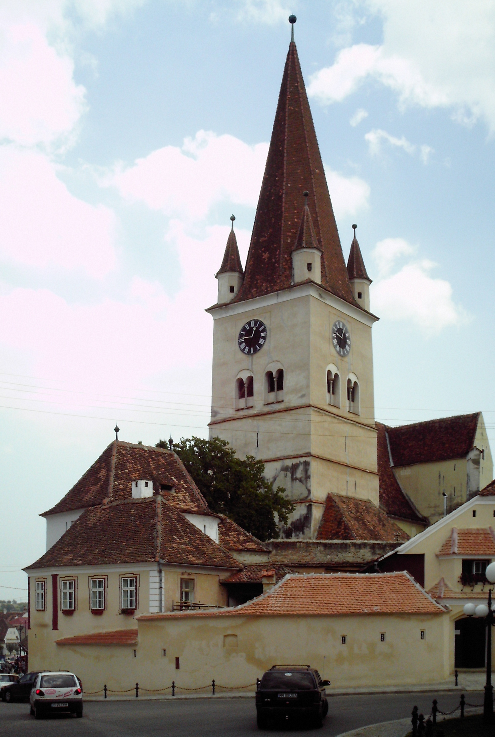 The Saxon fortified church in Cisnadie, Transylvania, Romania